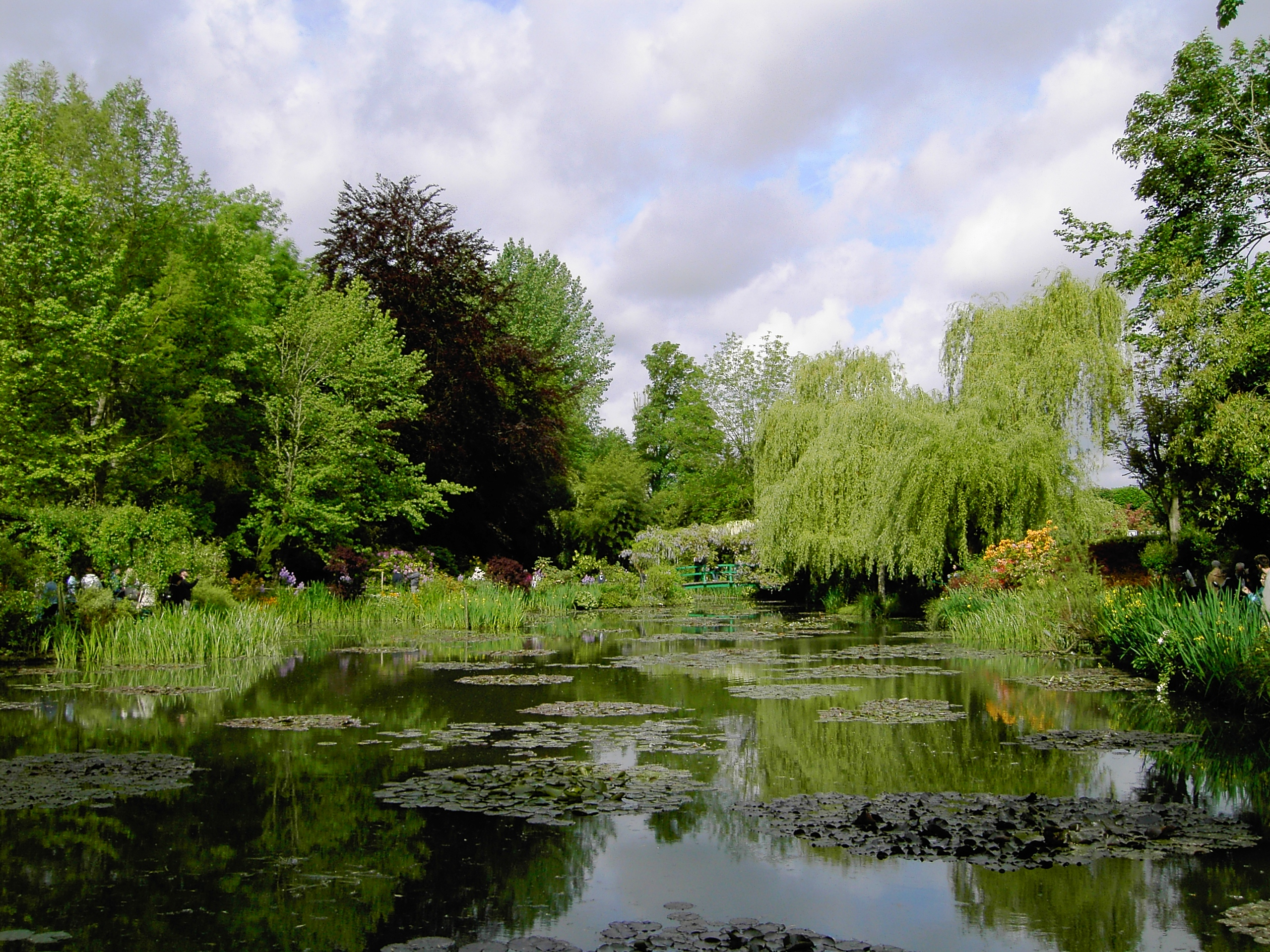 A photo of Giverny Summer of 2005